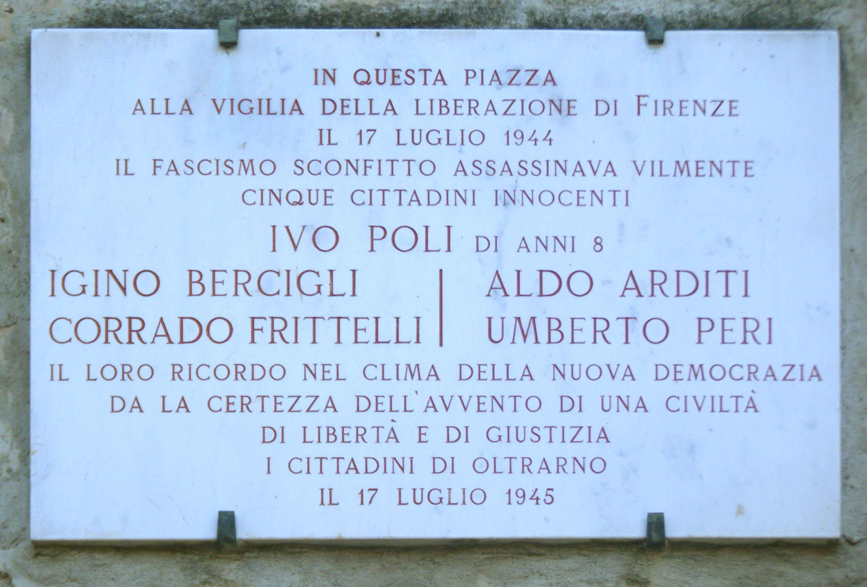 Plate in Tasso square (Florence - Italy)